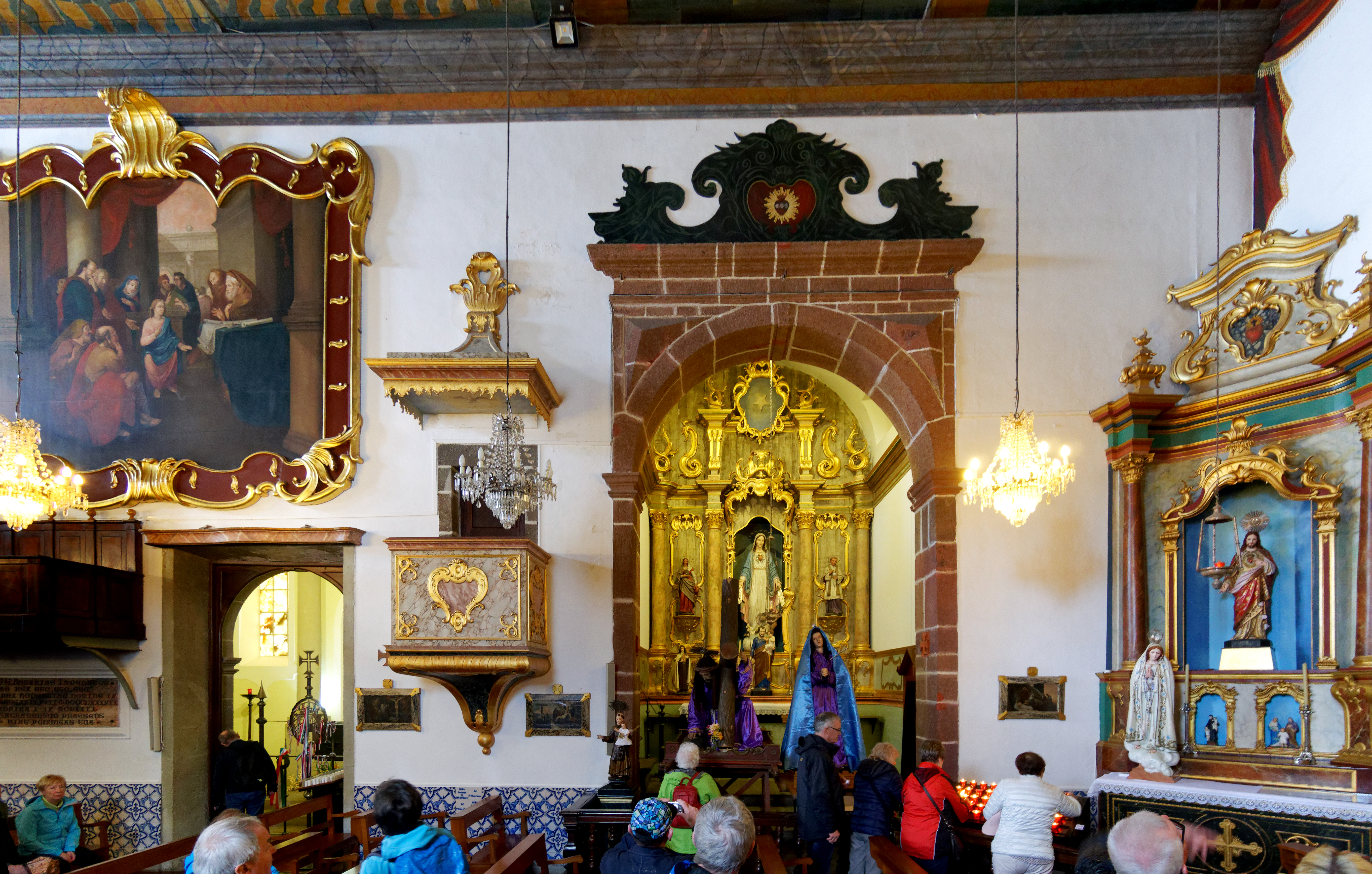 The Church of Monte (Madeira).